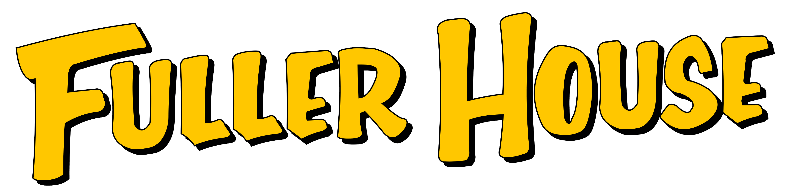 Logo of the Netflix original series, Fuller House.